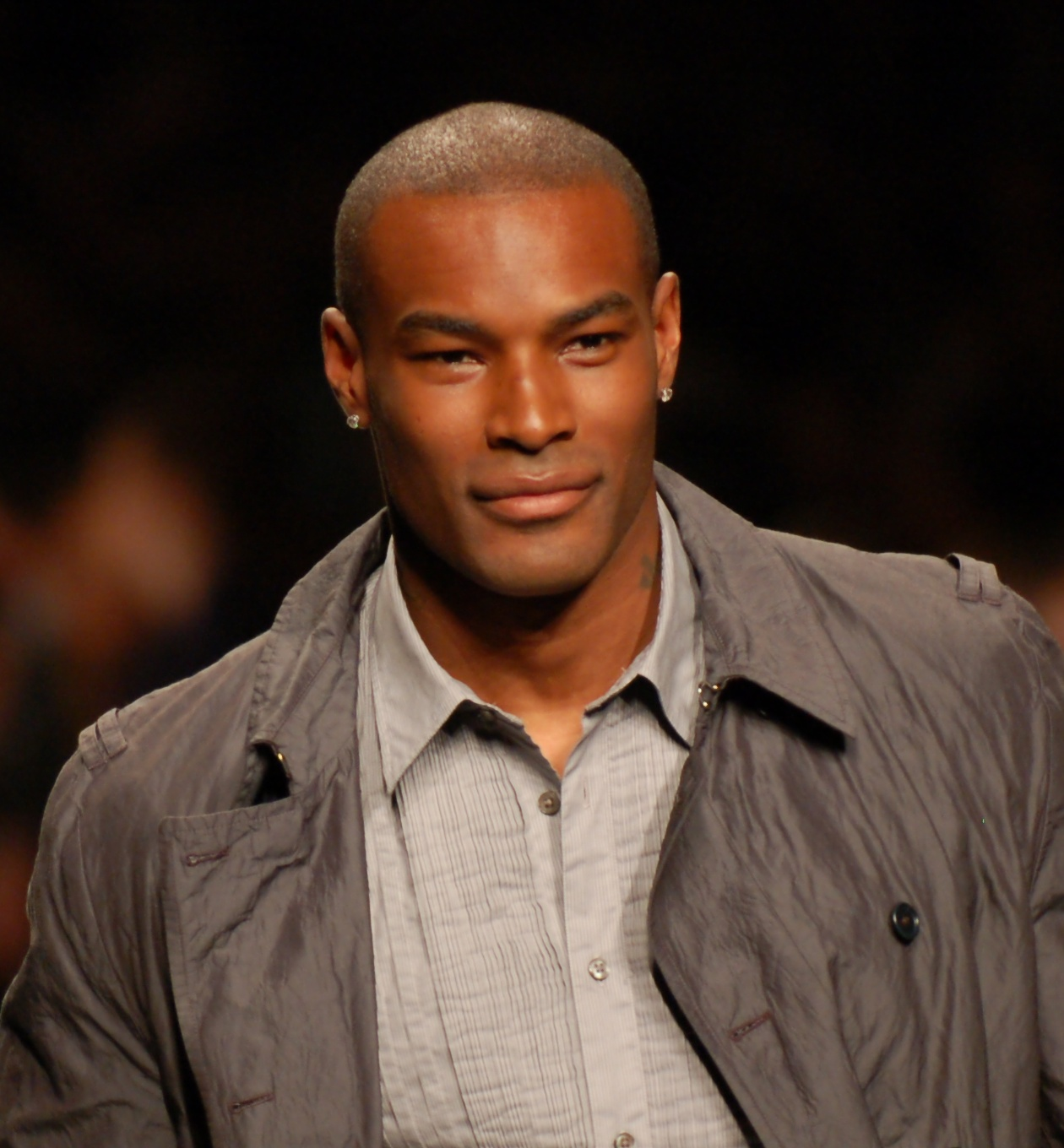 Tyson Beckford at FashionWeekLive in San Francisco, March 15, 2007. Photo by Jesse Gross.